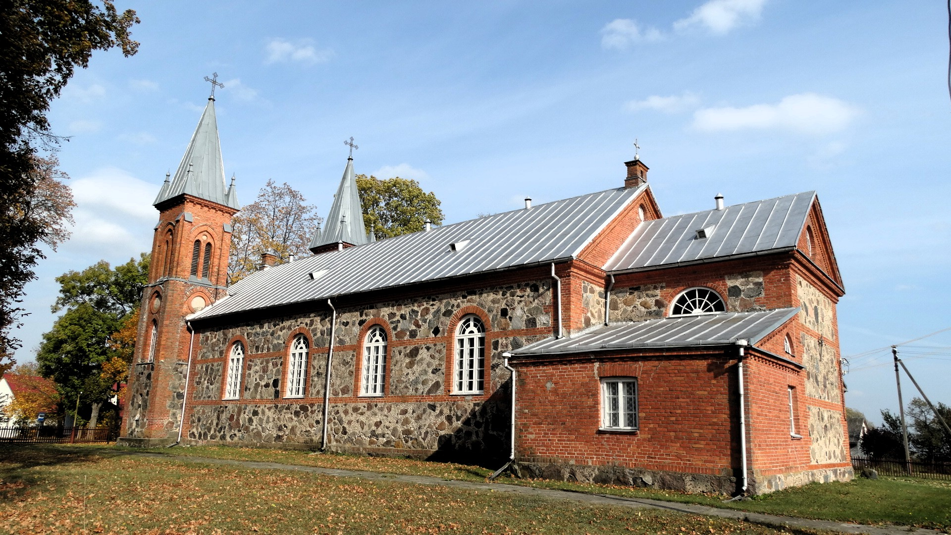 Church, Krokialaukis, Alytus district, Lithuania